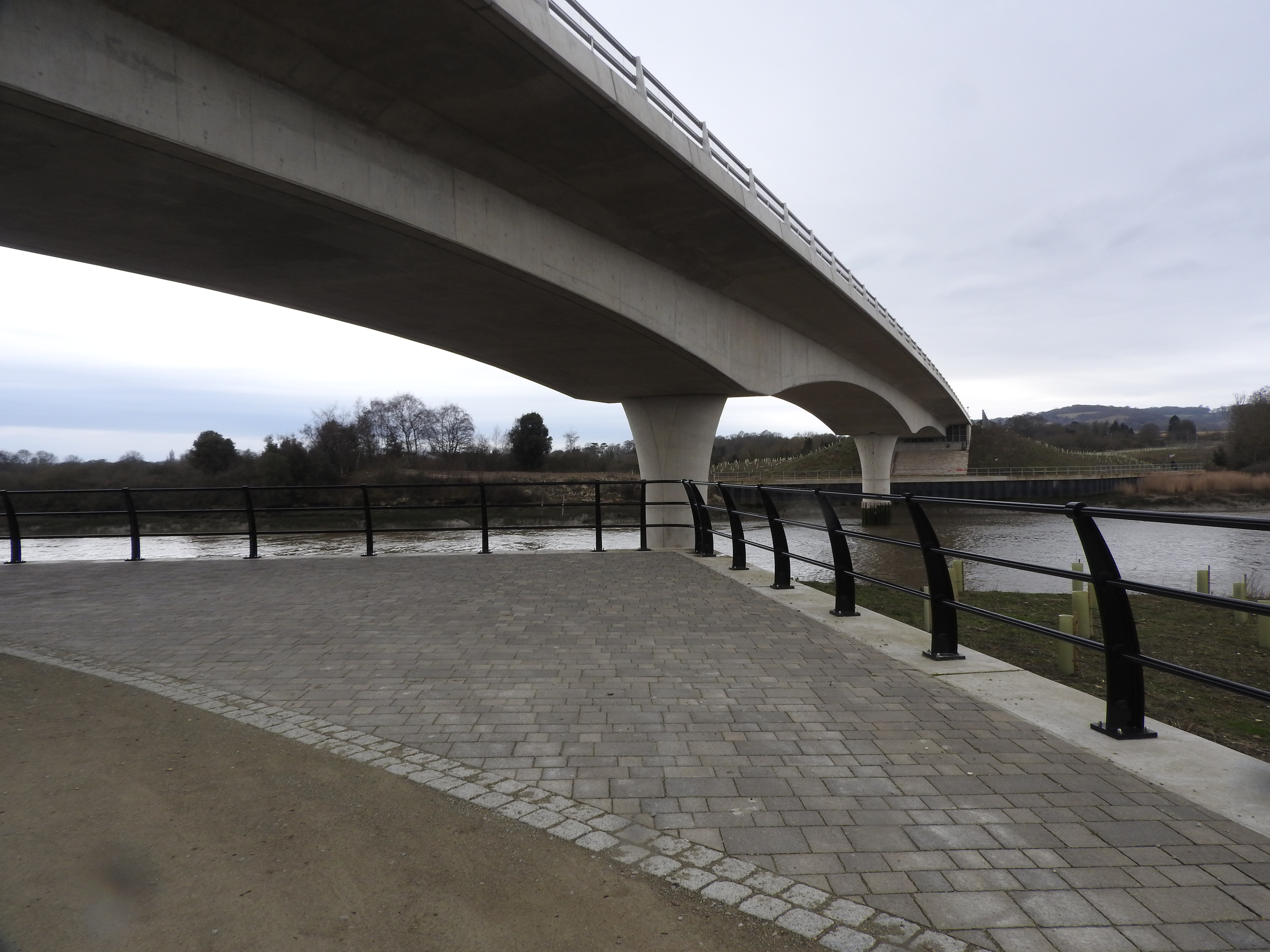 Peters Bridge opened 15 September 2016. It connects Wouldham with the A228 at Halling, it crosses the tidal River Medway